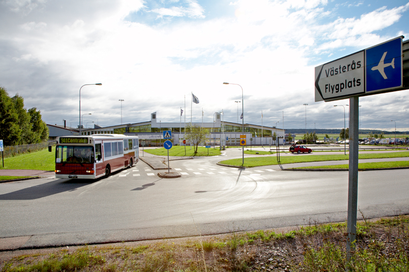 Västerås Airport Transport